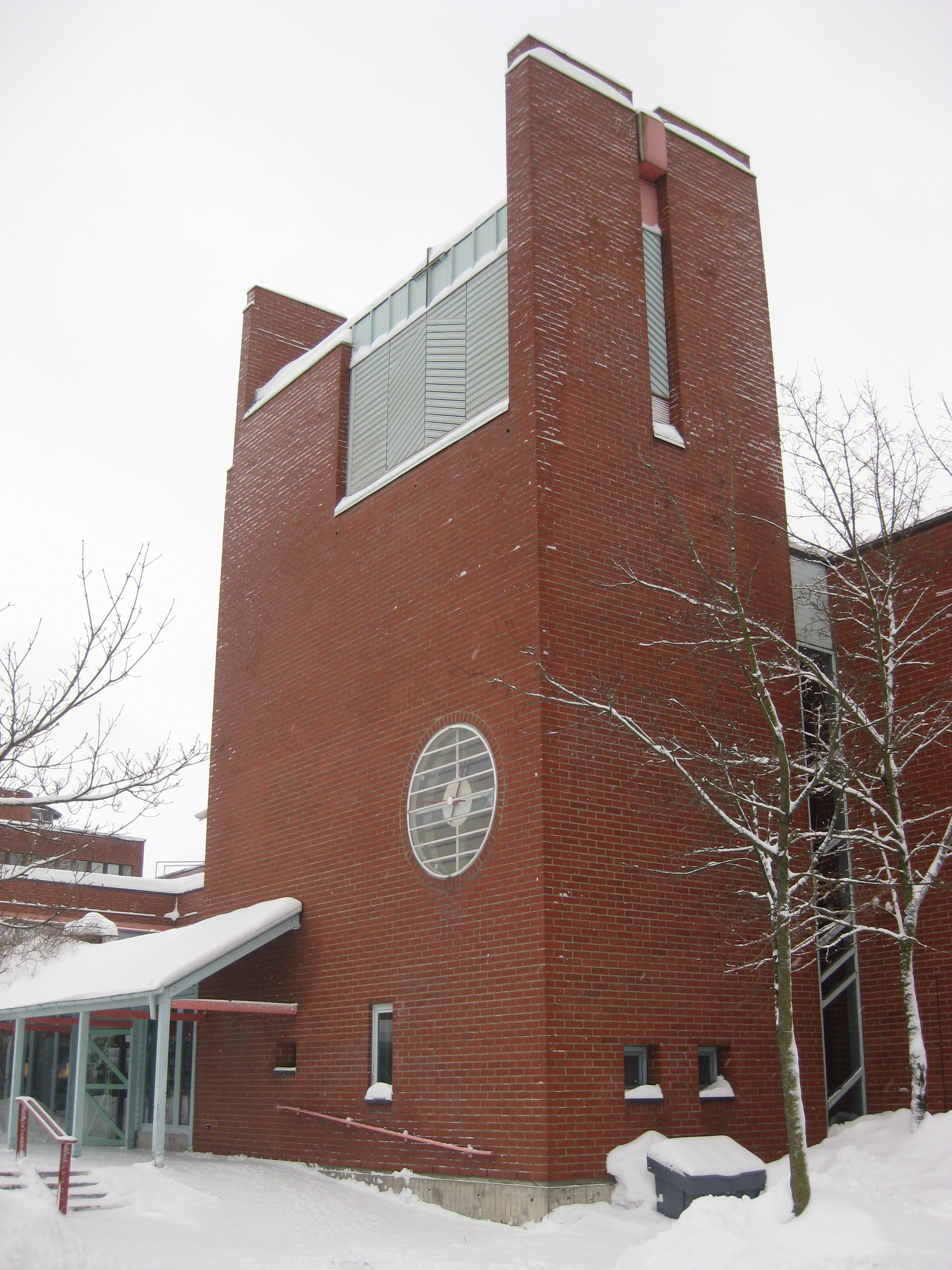 Saint Matthew Church in Puotinharju, Helsinki, Finland